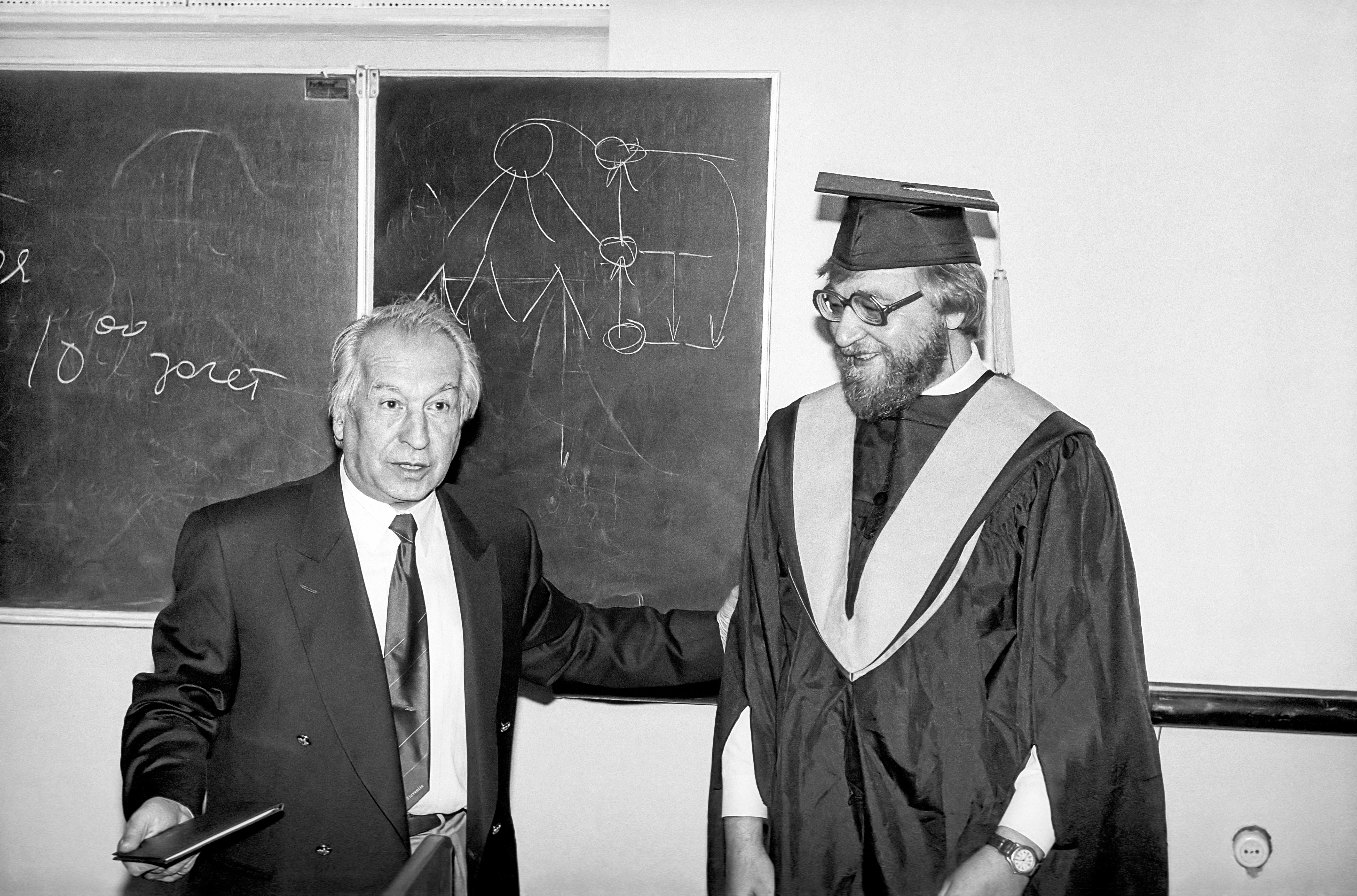 Alfred Karlovich Ailamazyan and Sergey Mikhailovich Abramov.